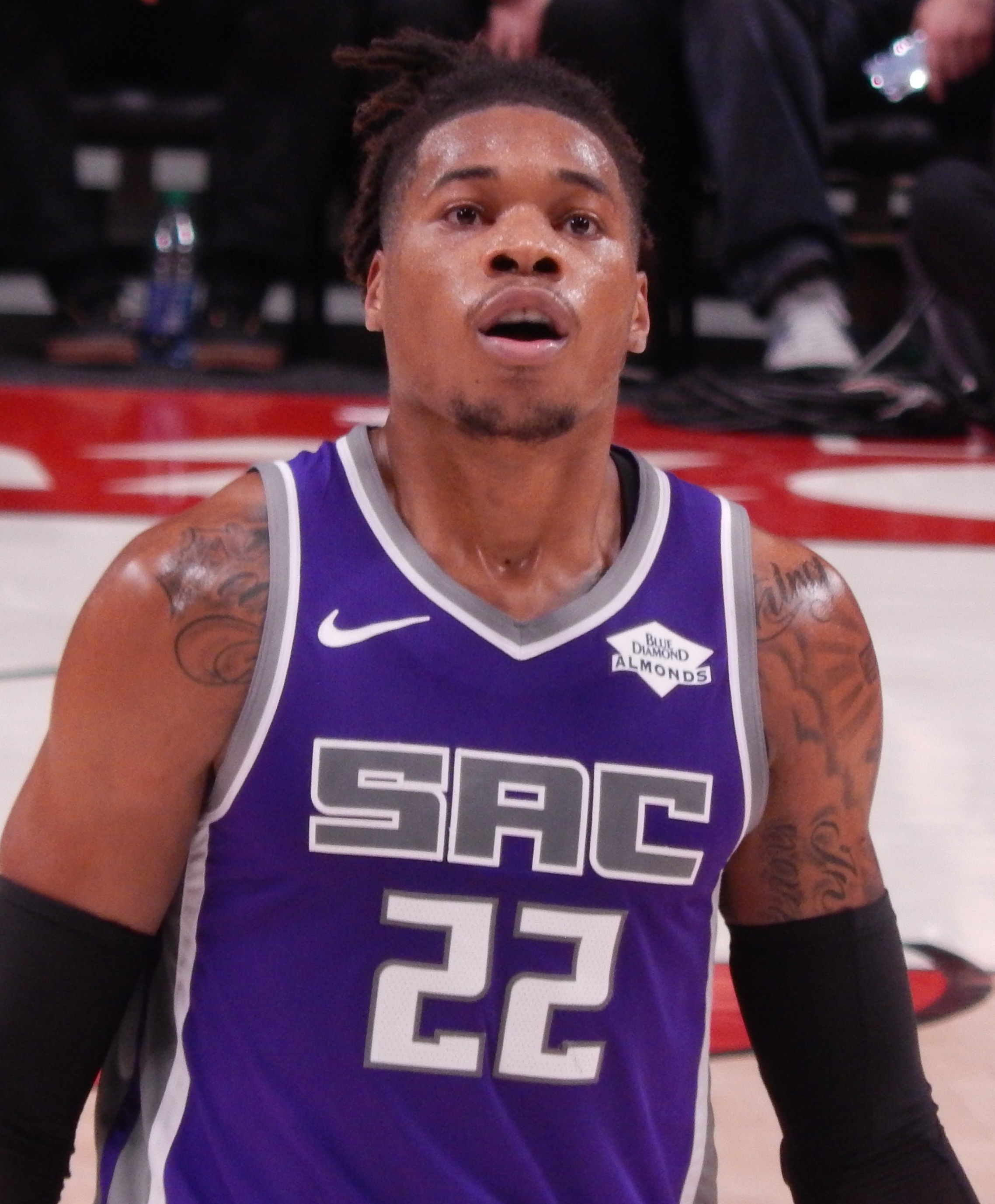 Richaun Holmes #22 of the Sacramento Kings shoots a free throw during the game against the Portland Trail Blazers on December 4, 2019 at the Moda Center Arena in Portland, Oregon.